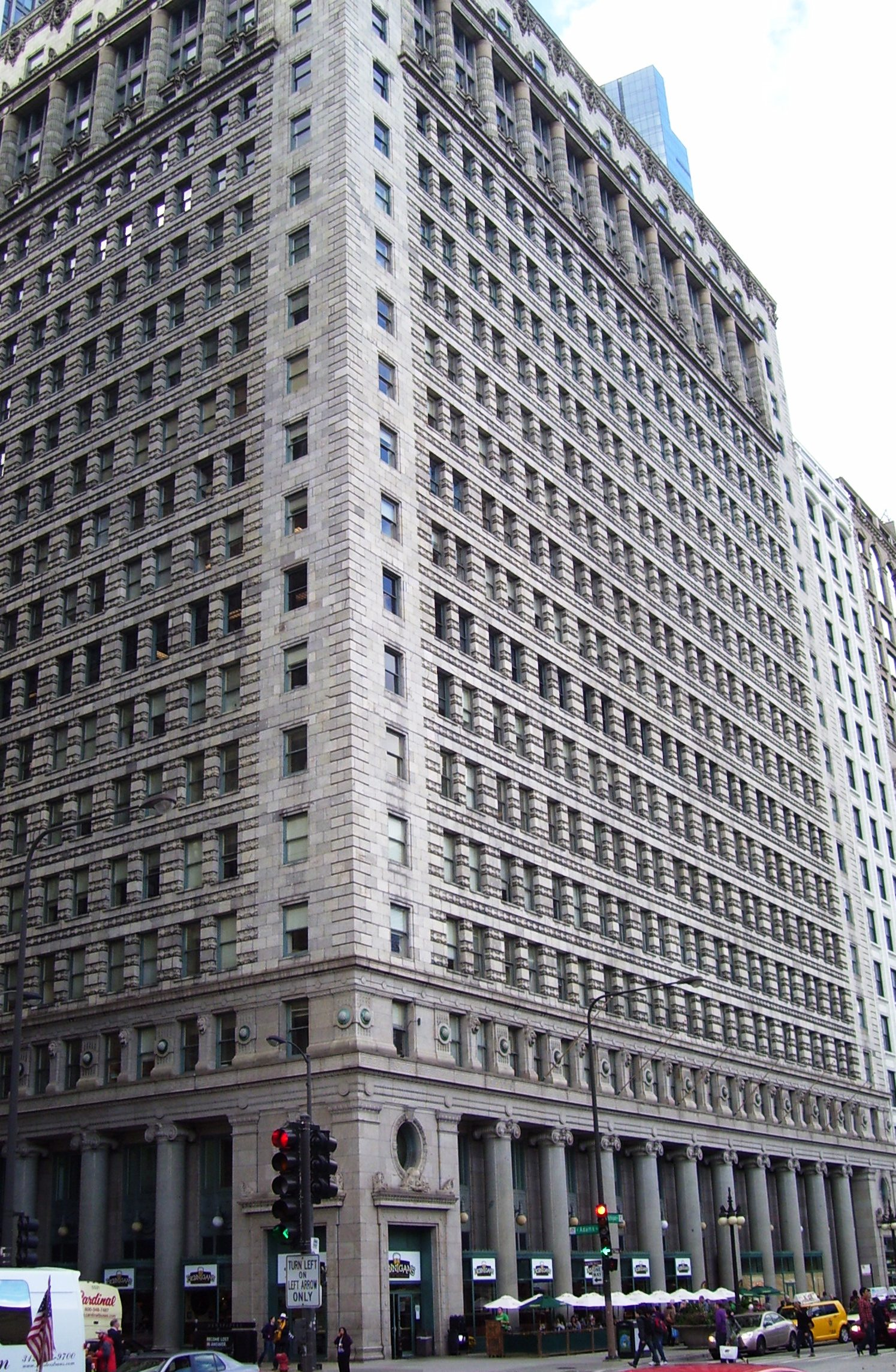 The Peoples Gas Building at 122 South Michigan Avenue at Adams Street in the Loop neighborhood of Chicago, Illinois was built in 1910-1911 and was designed by D. H. Burnham & Company. It was listed on the National Register of Historic Places in 1984, and is part of Chicago's Historic Michigan Boulevard Histrict.